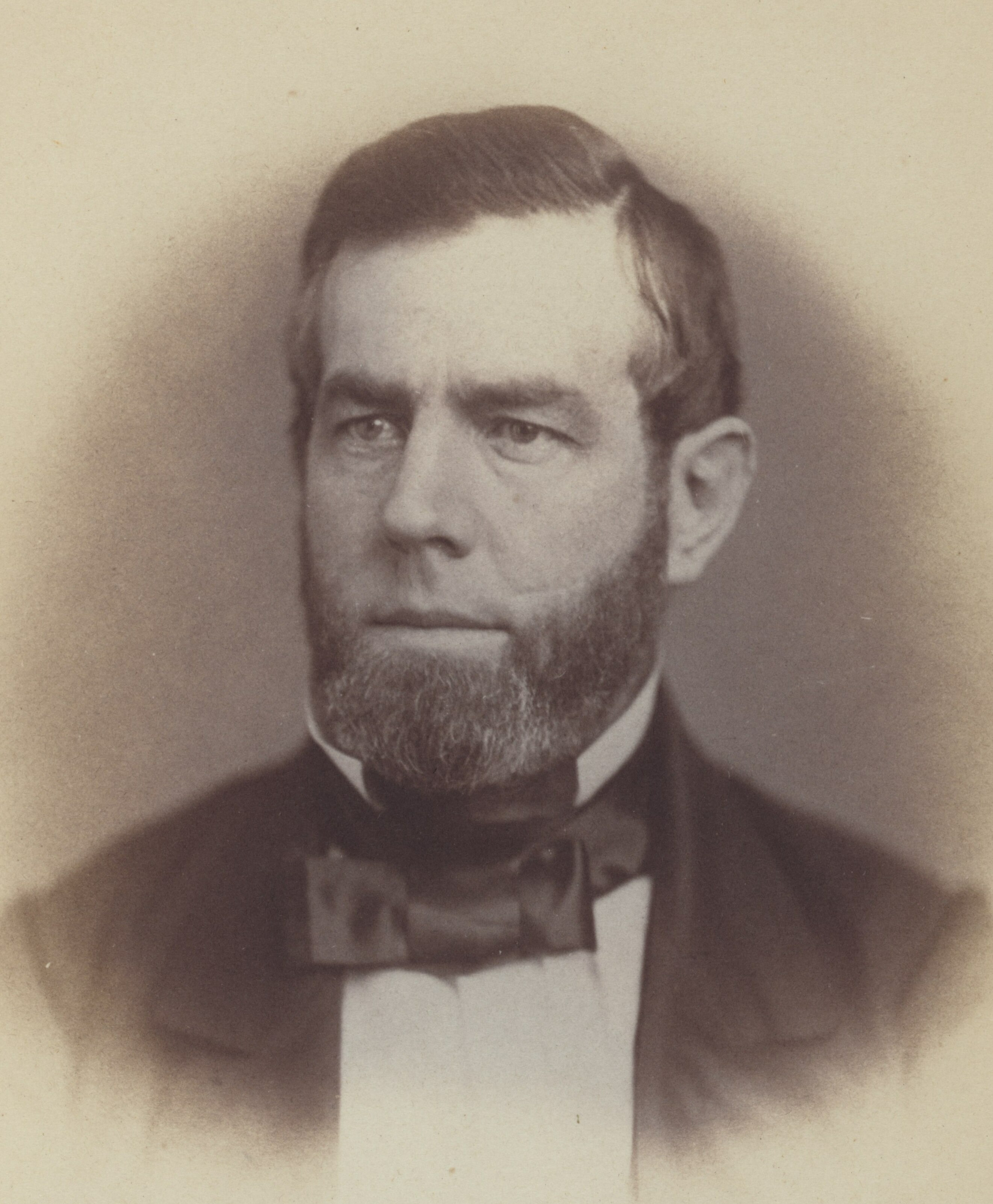 David C. Broderick, US Senator from California